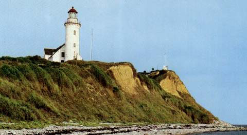 Vesborg Light, on the southwest side of Samsø, Denmark